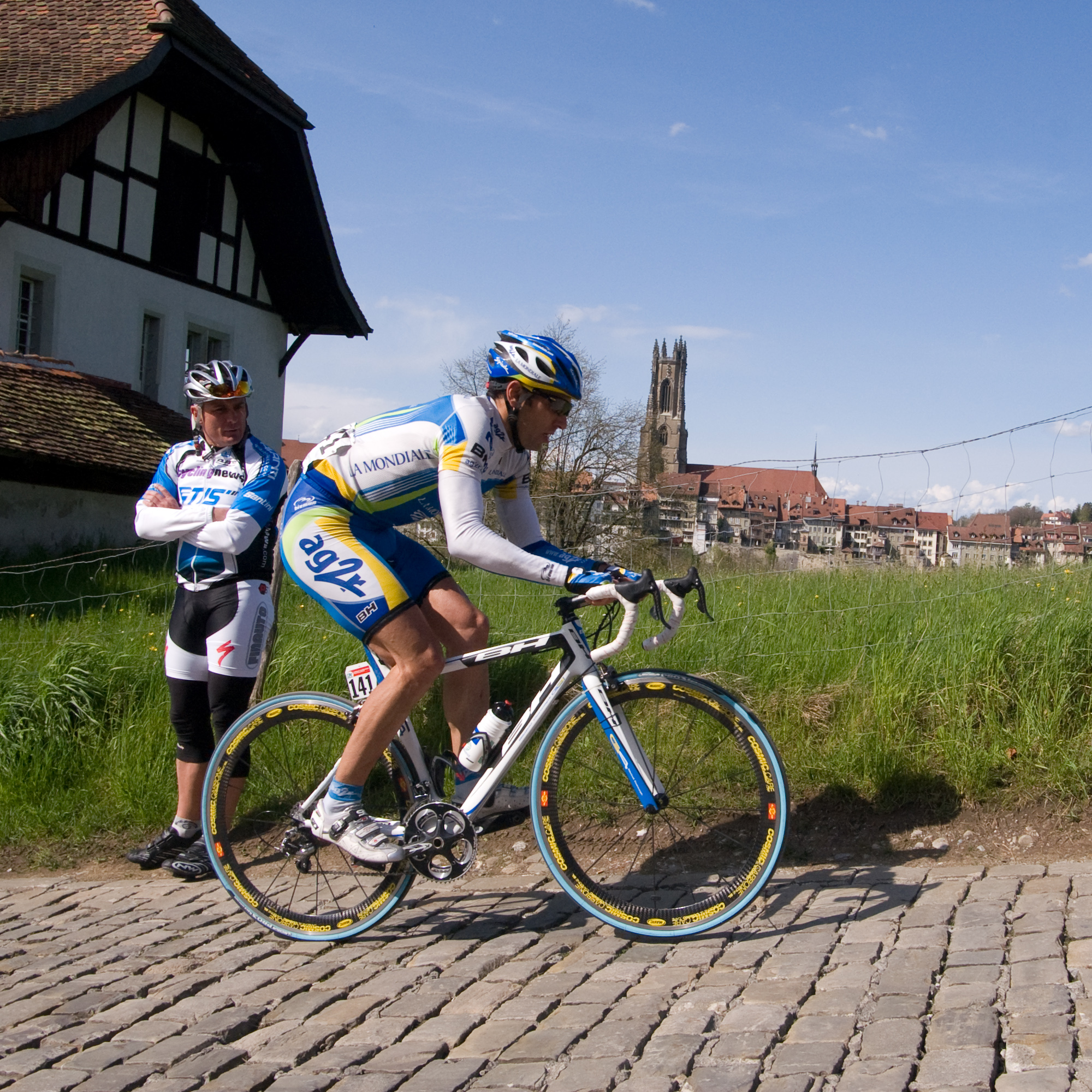 2nd stage of the Tour de Romandie 2008.